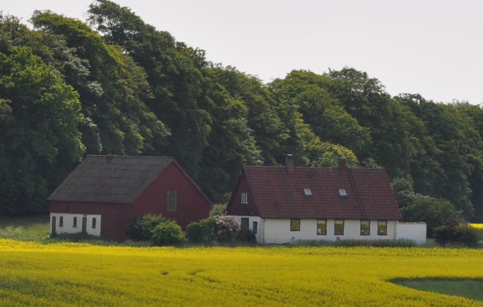 Brannerod